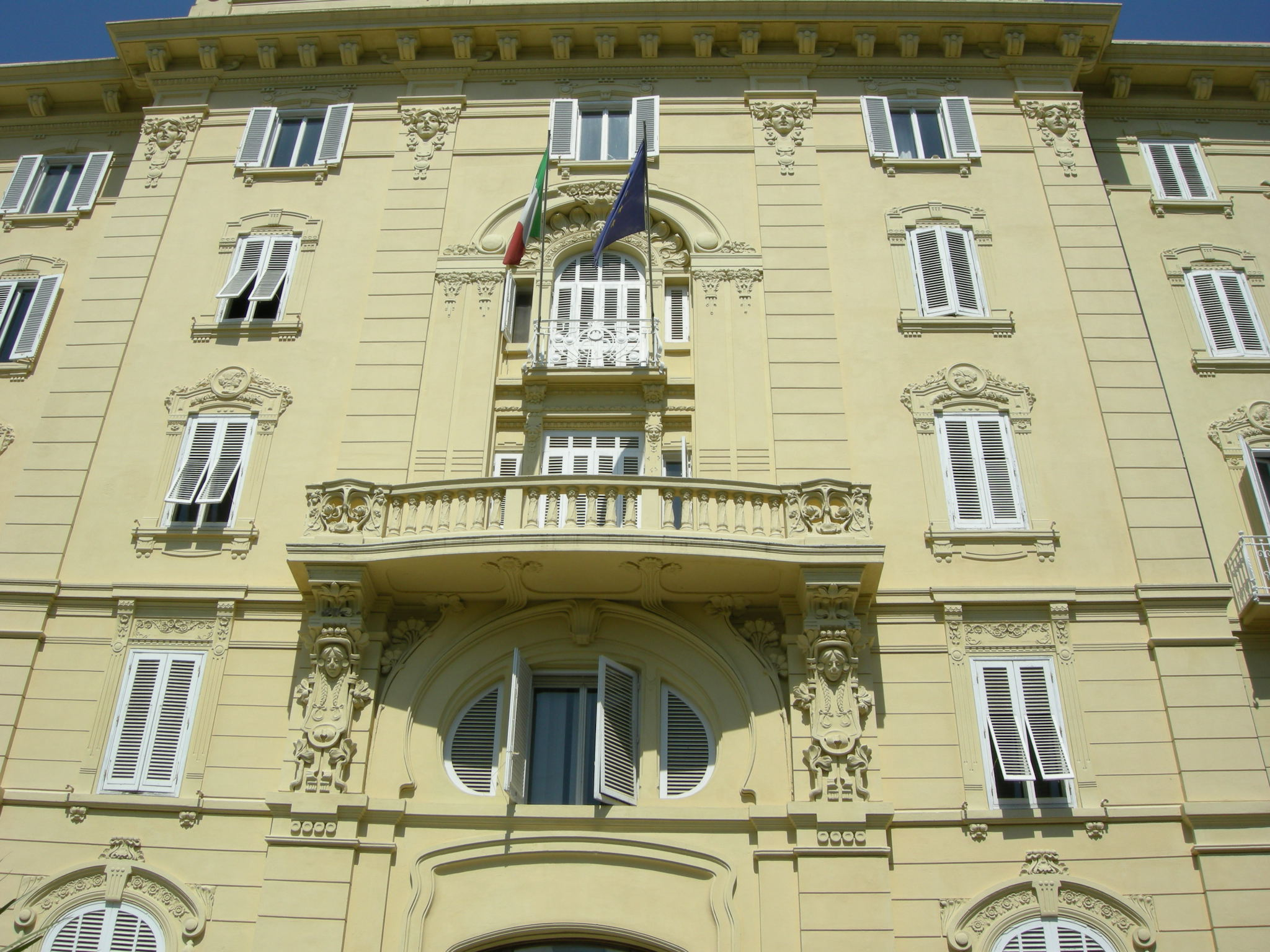 Grand hotel corallo